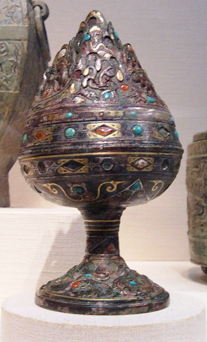 A Chinese Western Han Period (202 BC – 9 AD) bronze incense burner with gold, silver, turquoise, and carnelian inlaid decoration